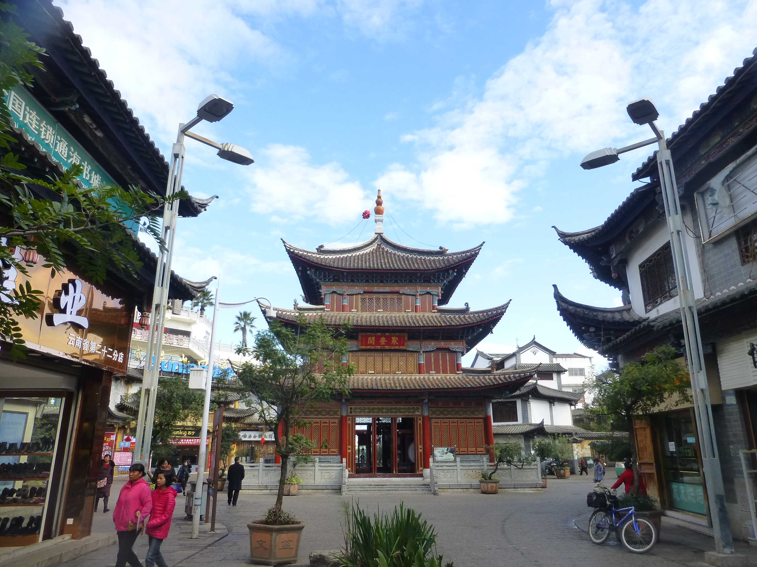 Central urban area (Xiushan Subdistrict) of Tonghai County's county seat.